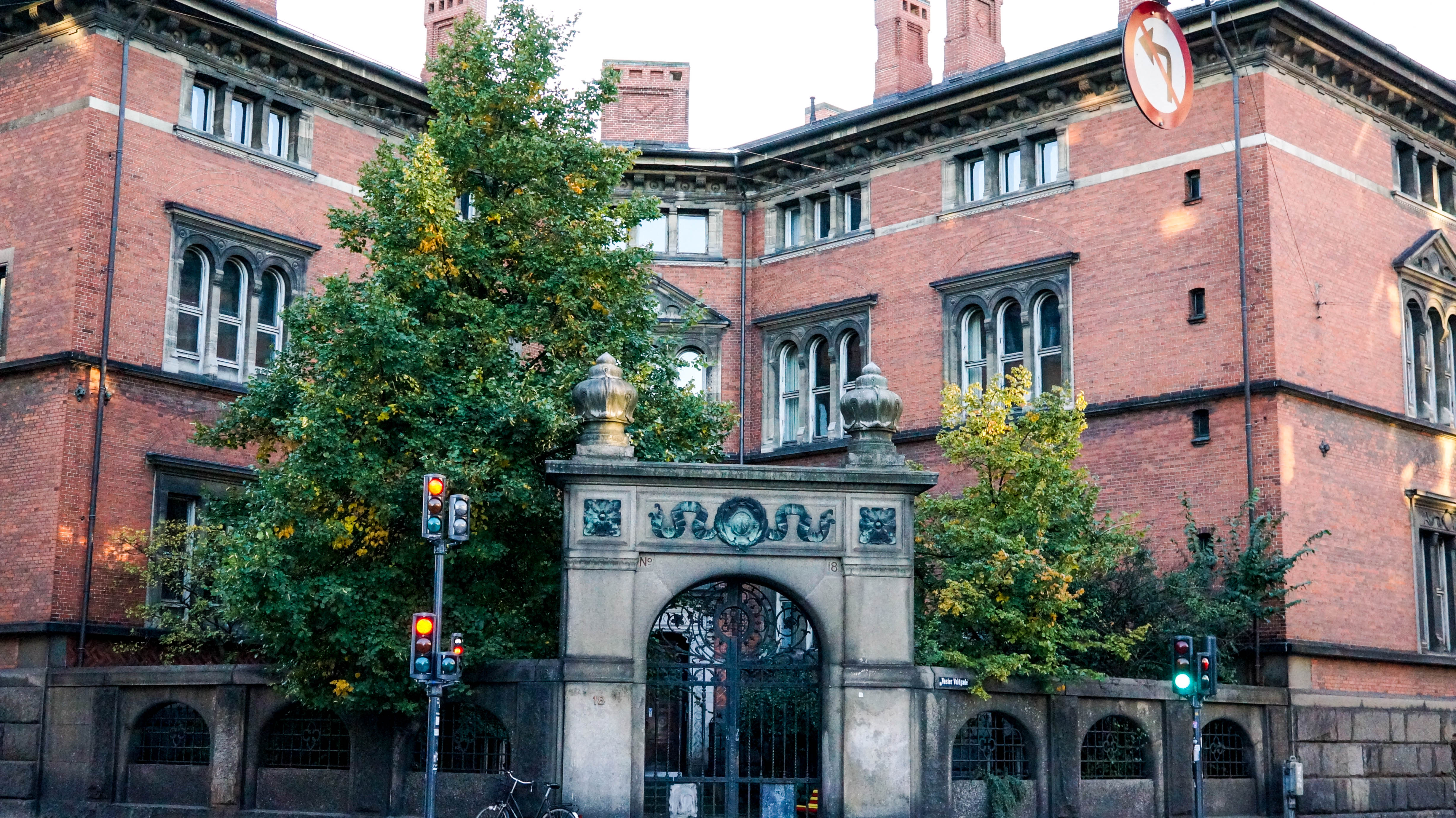 Overformynderiet's former building at Vester Voldgade in Copenhagen, Denmark. Now home to the Museum of Copenhagen.